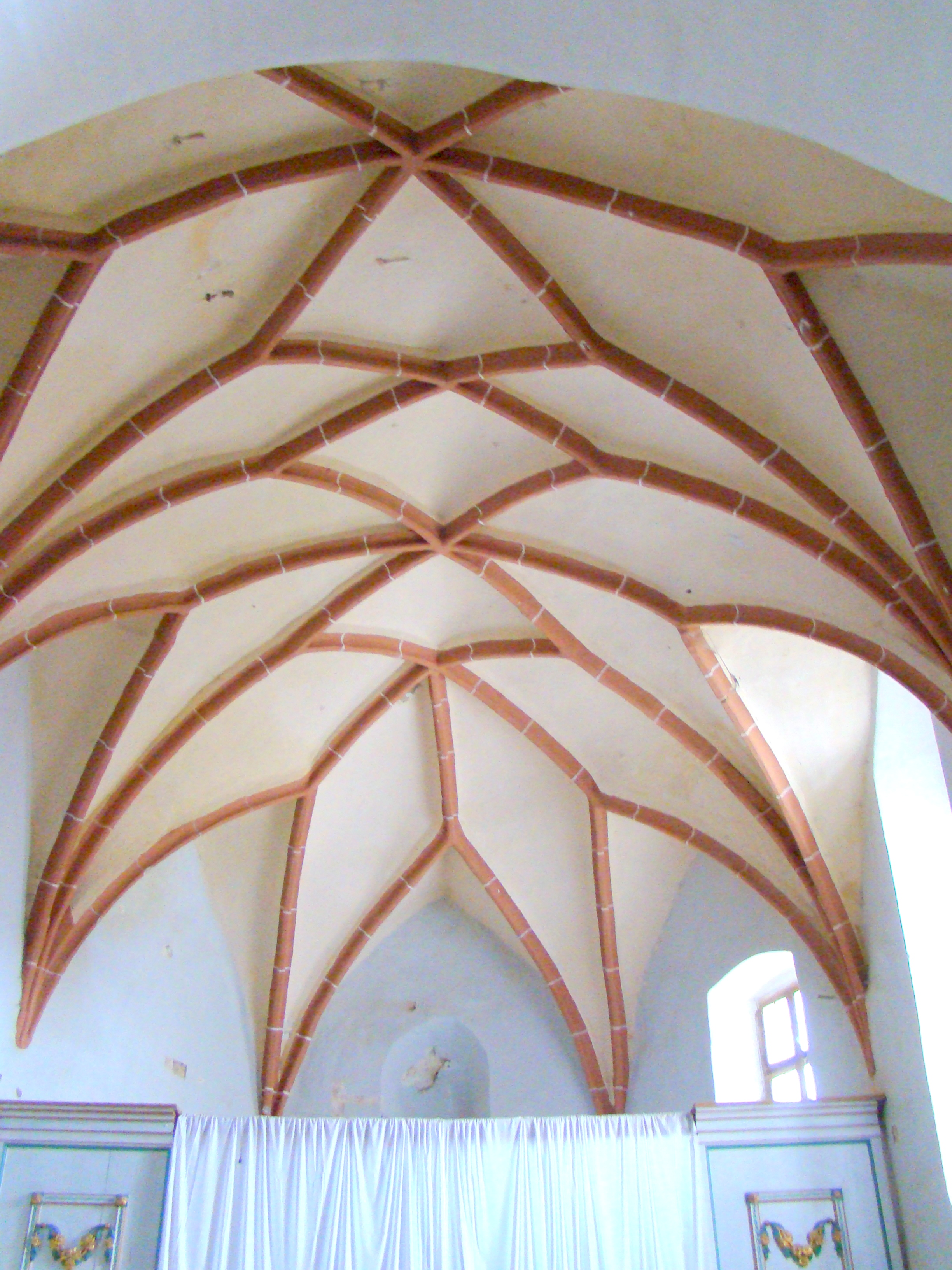 Fortified church in Roadeș, Brașov County, Romania